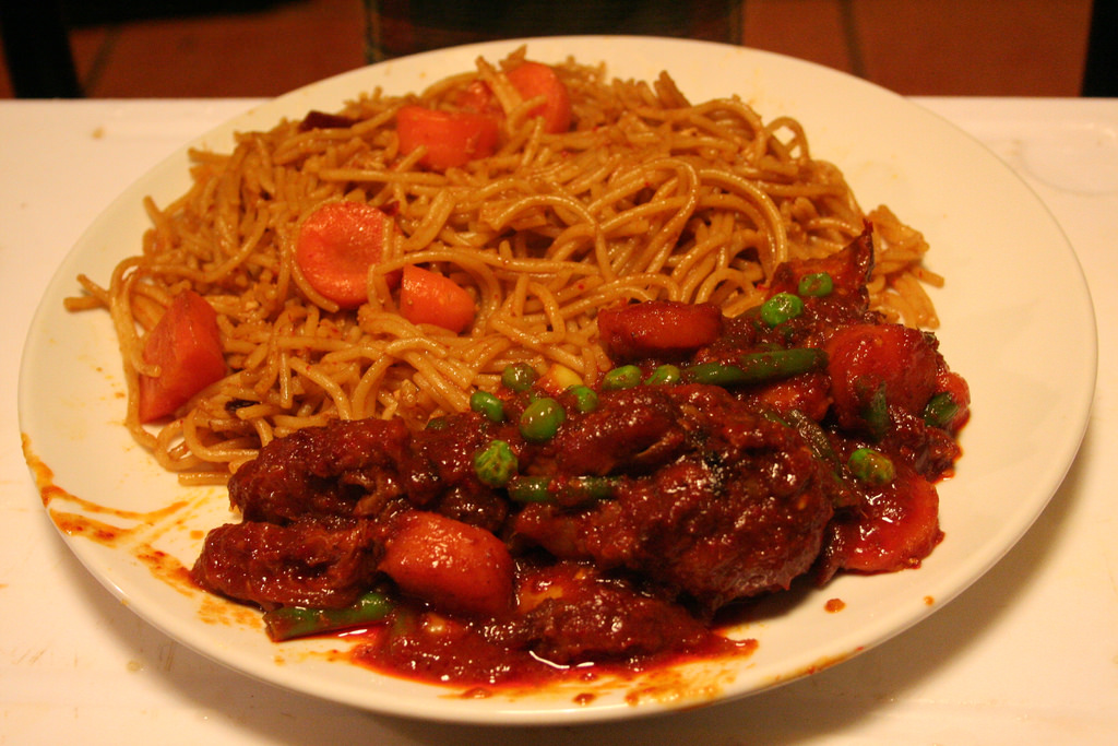 Spaghetti Goreng & Ayam Masak Merah